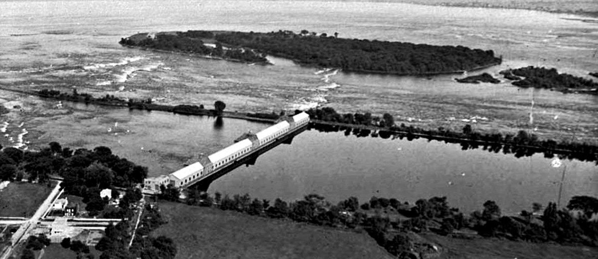 the Lachine hydroelectric power plant in 1927.